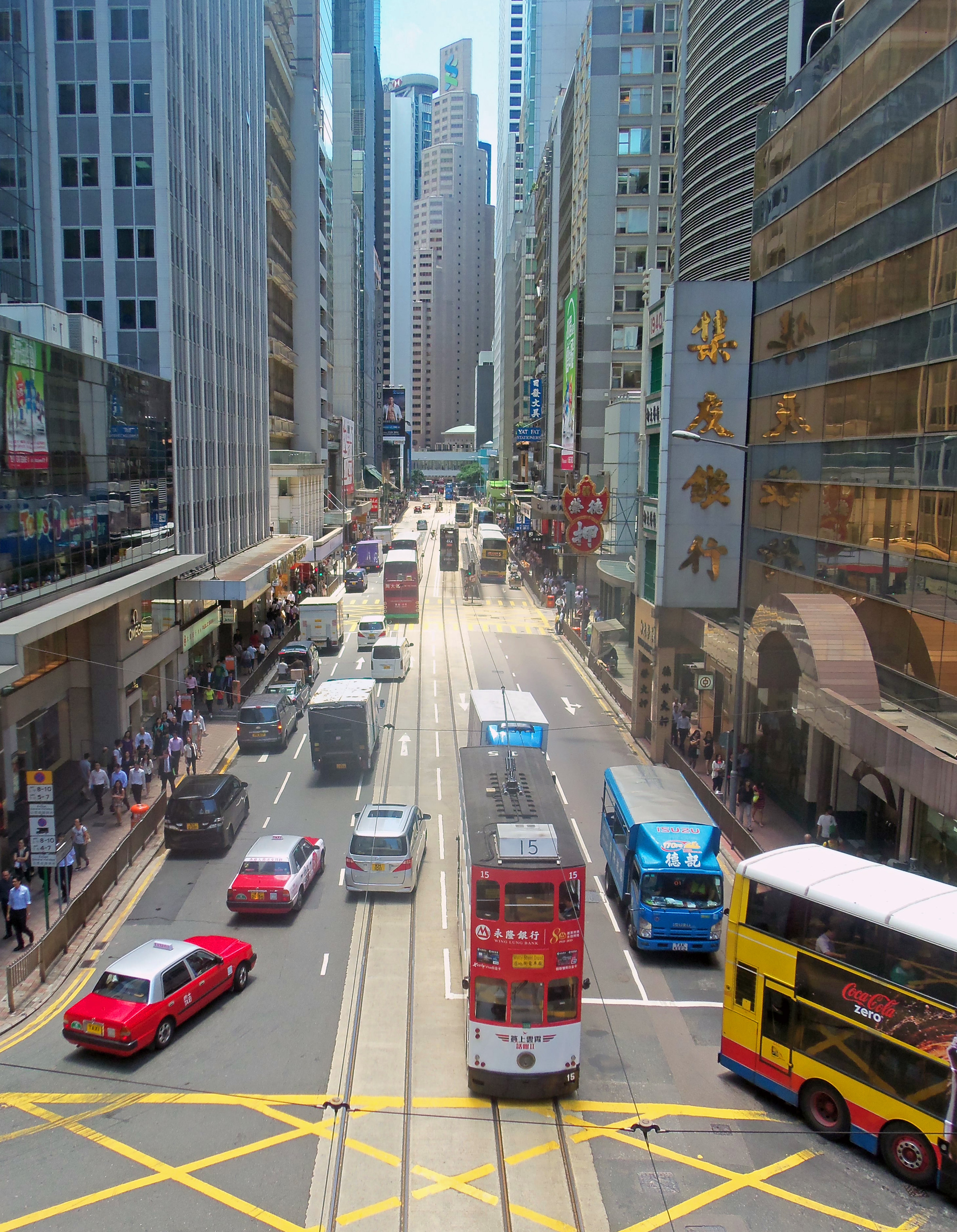 Buses, taxis and trams along Queensway.